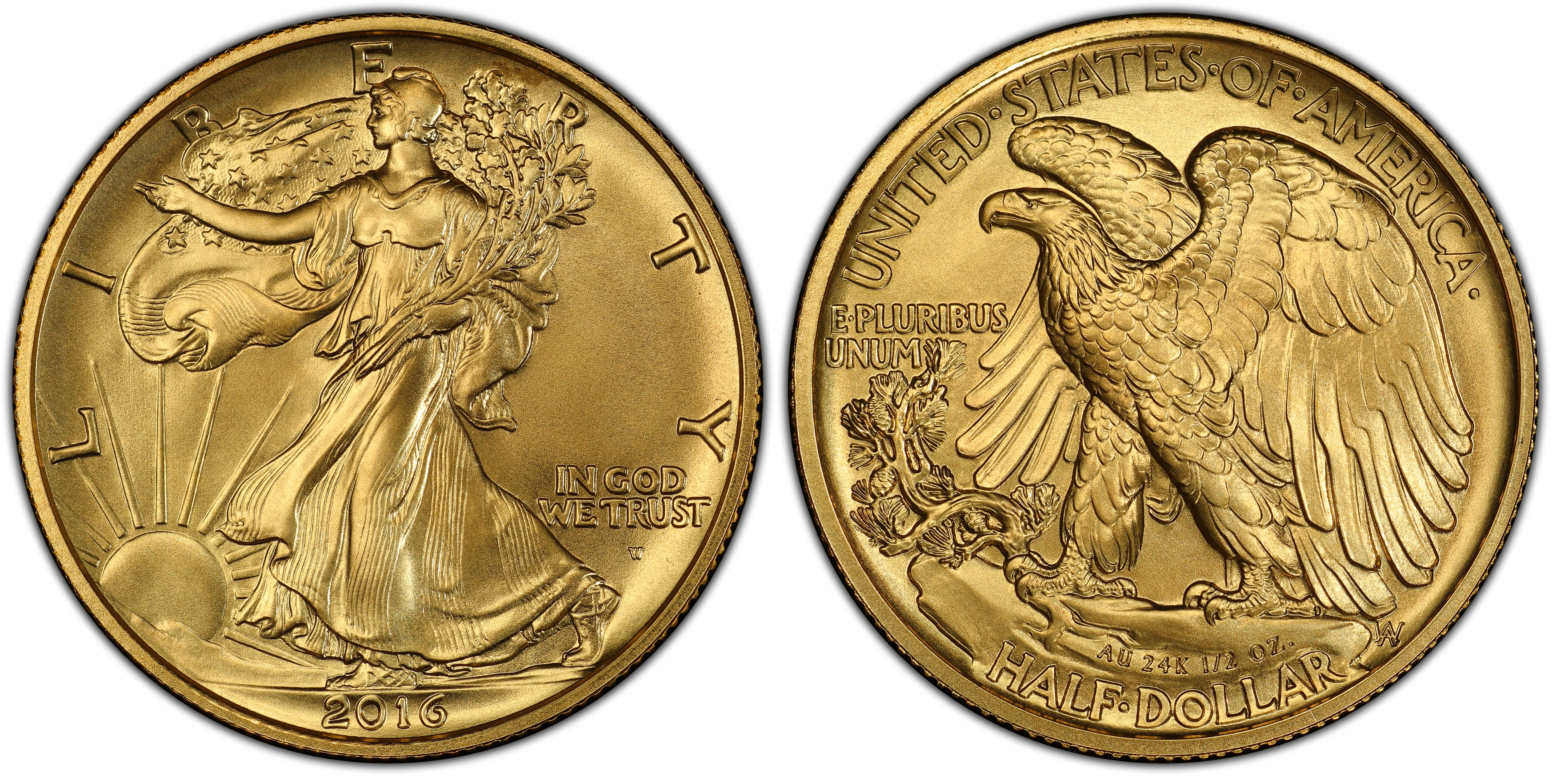 A 100th anniversary 2016-W gold Walking Liberty half dollar. This is taken from [1]. As a U.S. coin, the design is in the public domain, and per WP:IUP: "Also note that in the United States, reproductions of two-dimensional artwork which is in the public domain because of age do not generate a new copyright — for example, a straight-on photograph of the Mona Lisa would not be considered copyrighted (see Bridgeman v. Corel). Scans of images alone do not generate new copyrights — they merely inherit the copyright status of the image they are reproducing." Since this is simply a straight-on photo or scan, with no creative aspect involved, it should not be subject to copyright as per this precedent.